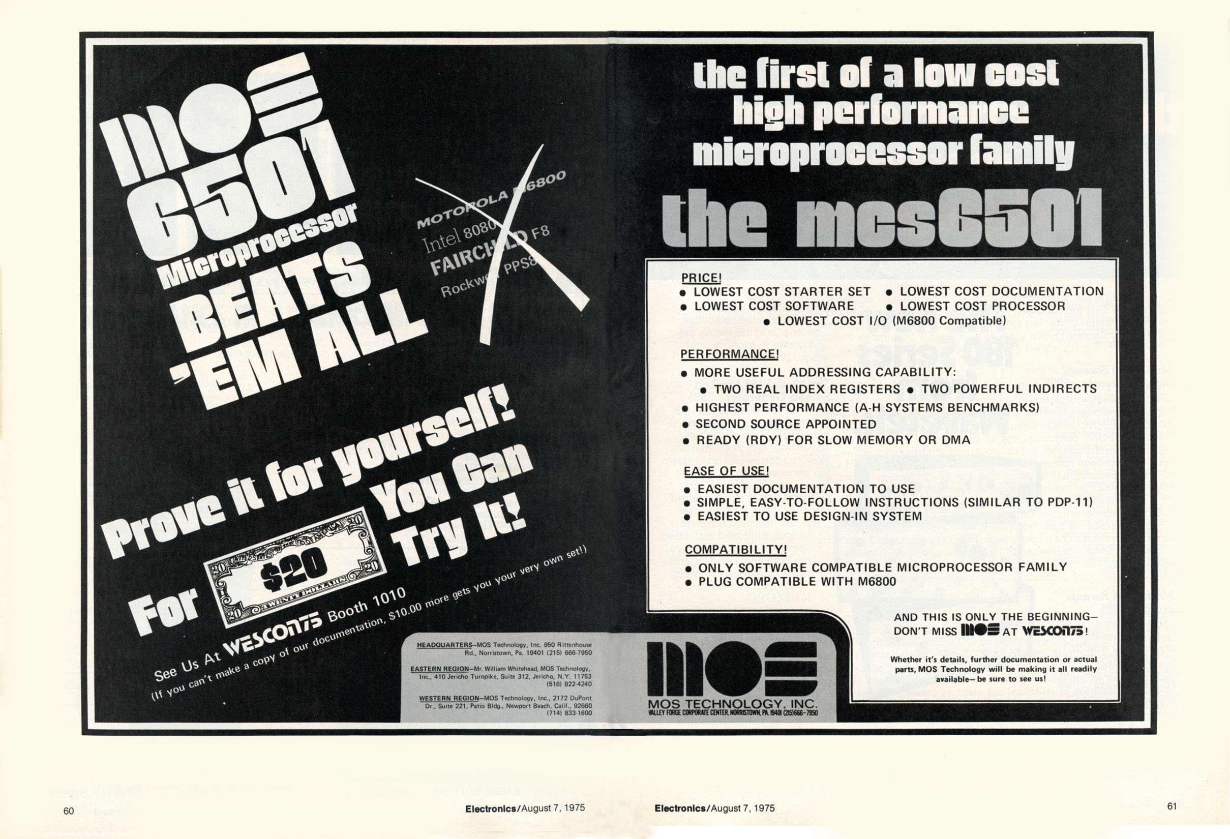 Introductory advertisement offering the MOS 6501 microprocessor for sale at the Western Electronic Show and Convention (WESCON), San Francisco, September 16-19, 1975. The ad appeared in several magazines, this one in the August 7, 1975 issue of Electronics (pages 60-61). The magazine was published August 1, 1975.